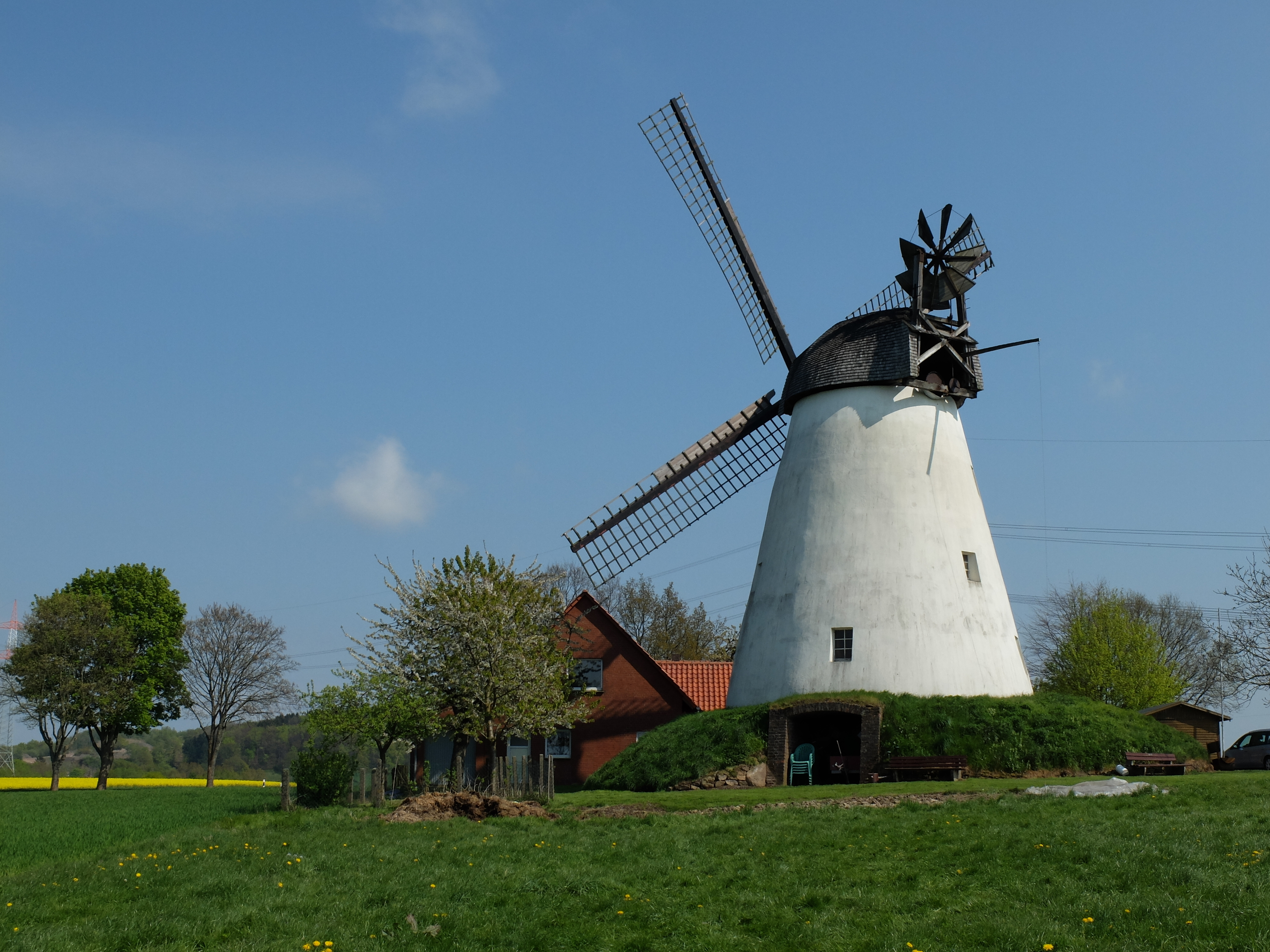 tower windmill Struckhof; located in Schnathorst, North Rhine-Westphalia, Germany); its an heritage building